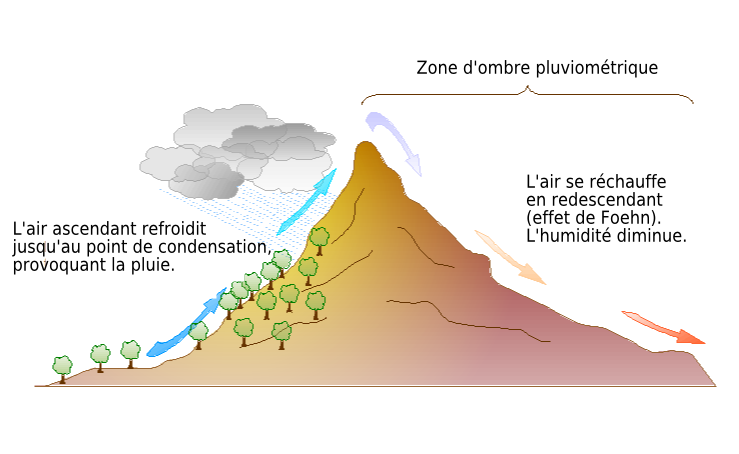 Rainshadow.